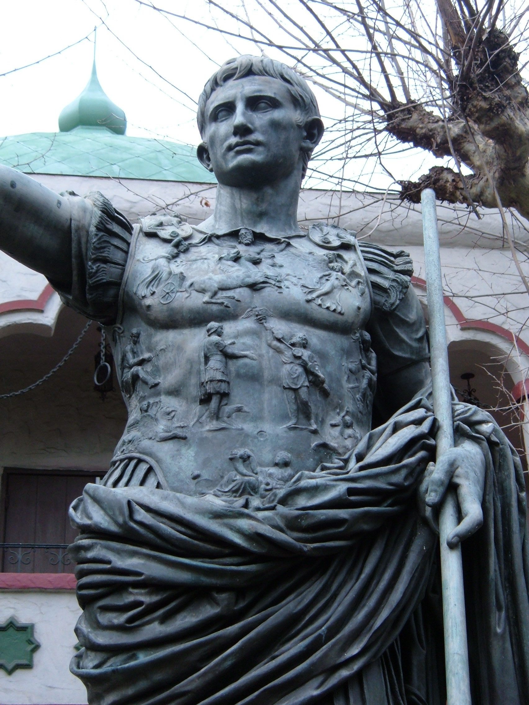 Closeup of a replica statue of the Augustus of Prima Porta at Rosicrucian Park in San Jose, California.